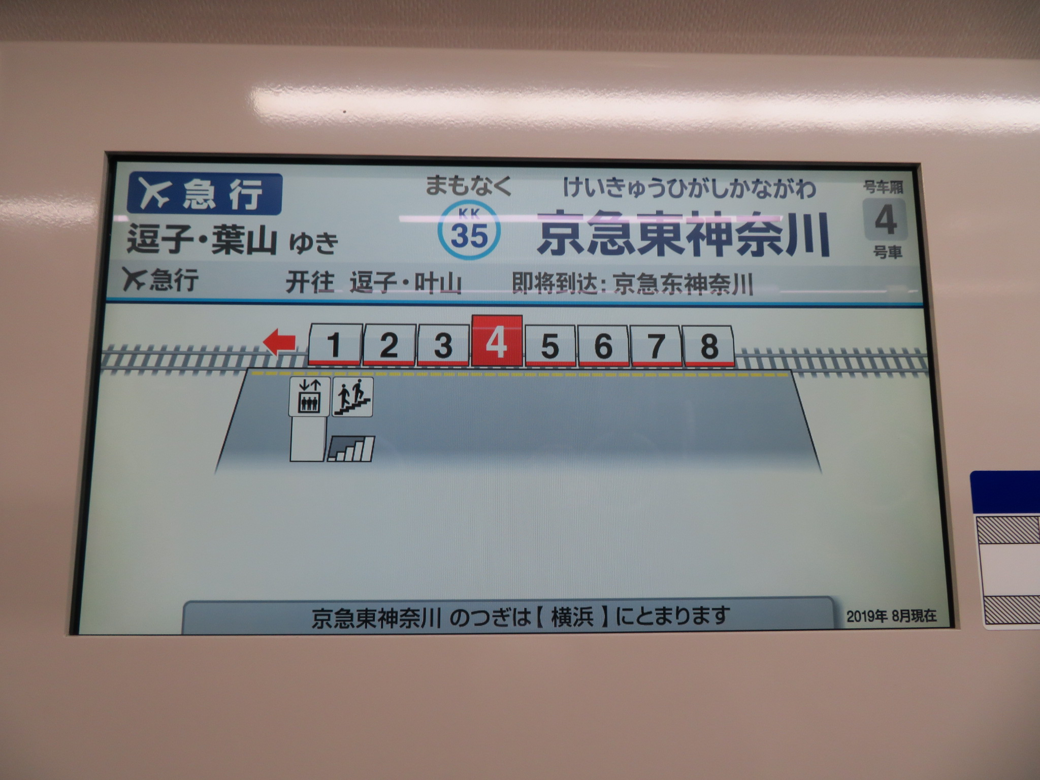 Keikyu Higashi-kangawa arrive at LCD